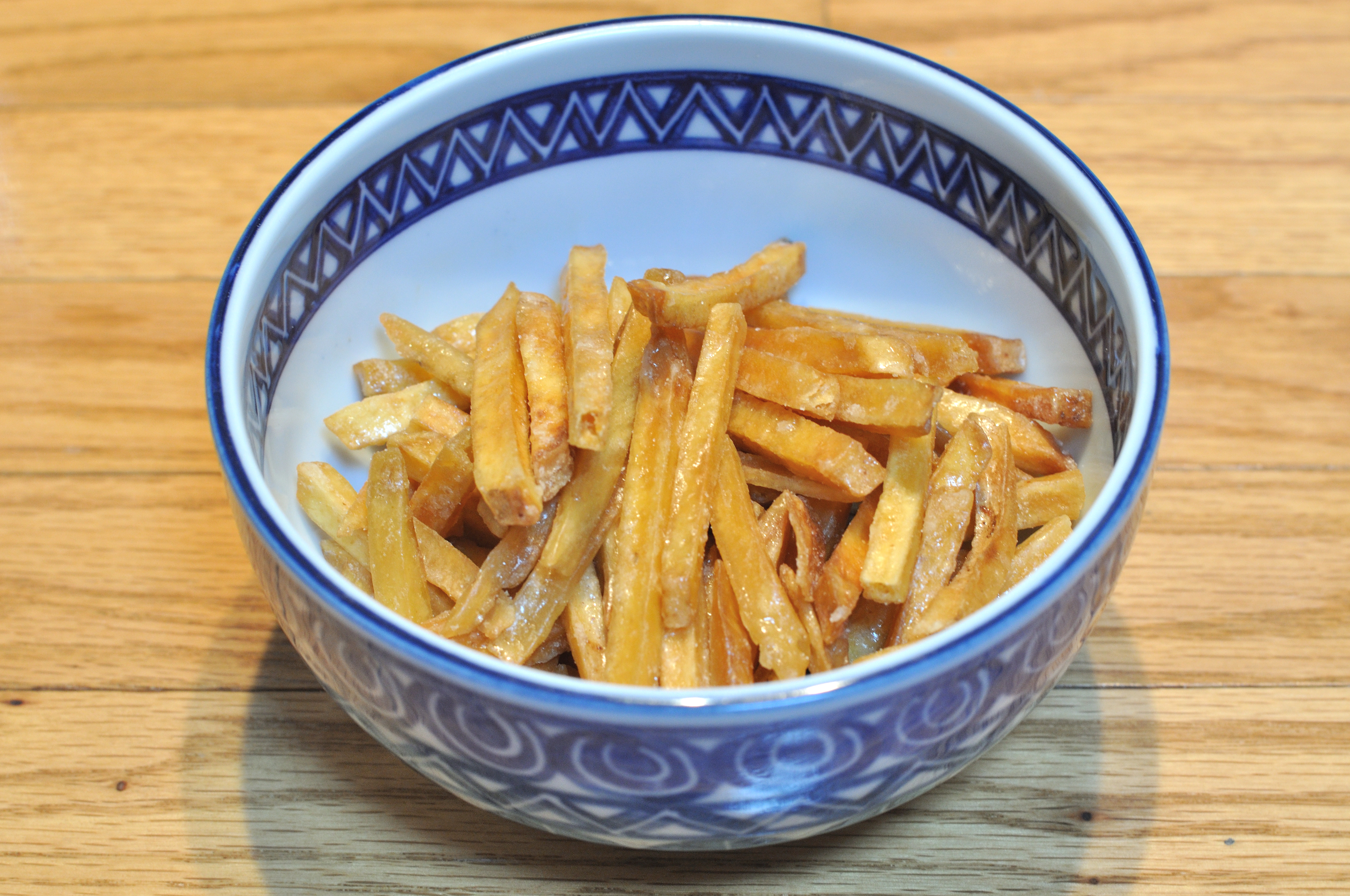 Typical sample of Imo-kenpi